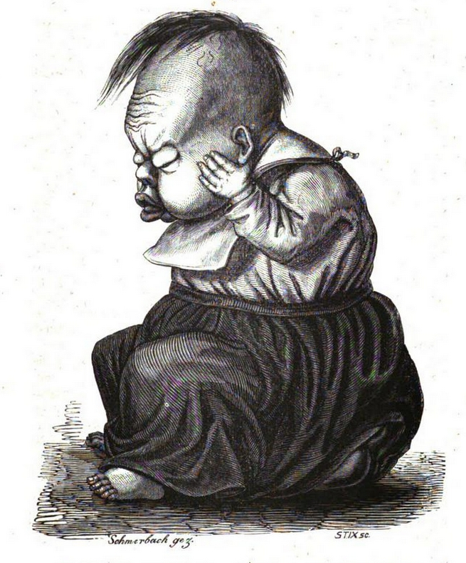 Drawing by Schmerbach, in: Rudolf Virchow, 1856